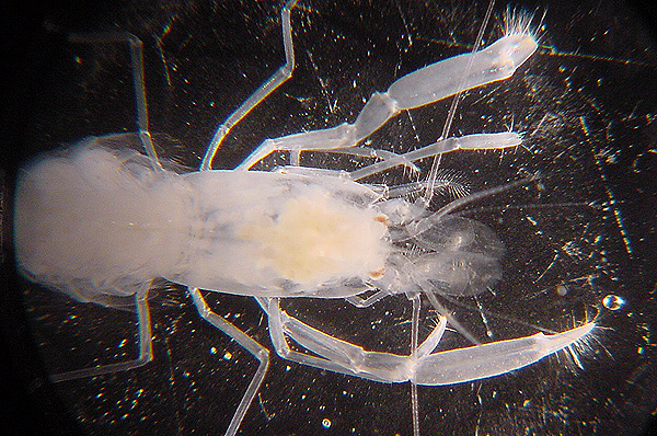 The glass sponge shrimp (Spongicoloides cf.) lives in the deep-water glass sponge.